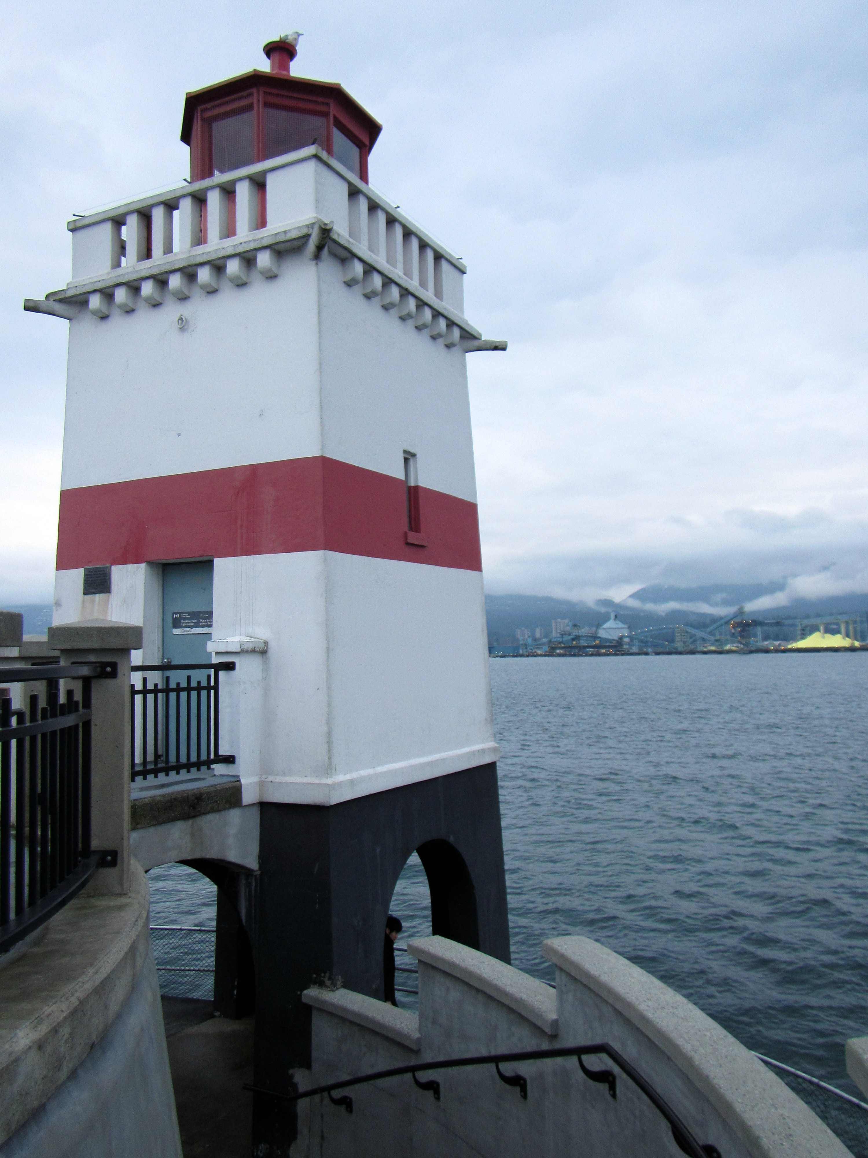 Brockton Point Lighthouse